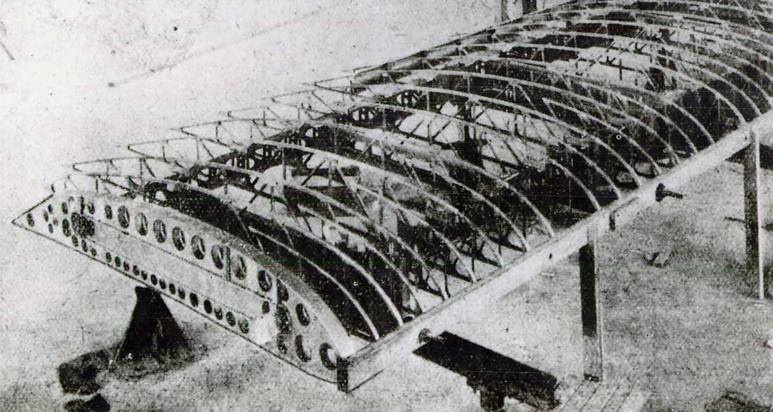 Dyle et Bacalan DB-10 photo from NACA Aircraft Circular No.27